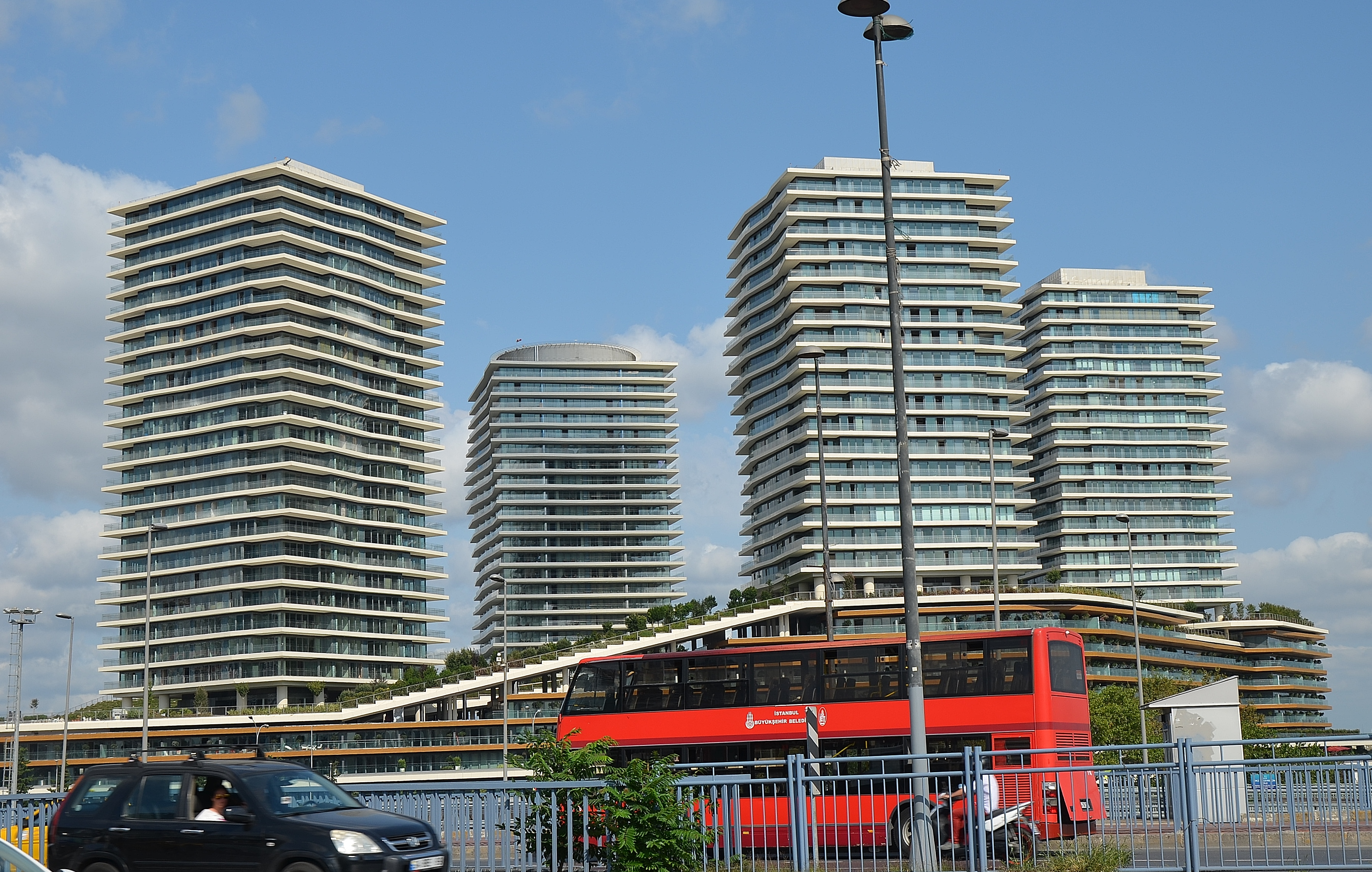 Zorlu Center Towers in Zincirlikuyu, Şişli - Istanbul, Turkey